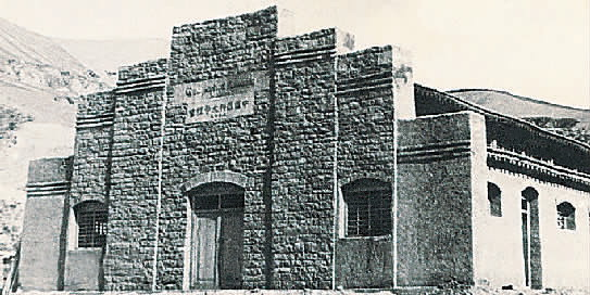 Auditorium, China Medical University in Yan'an